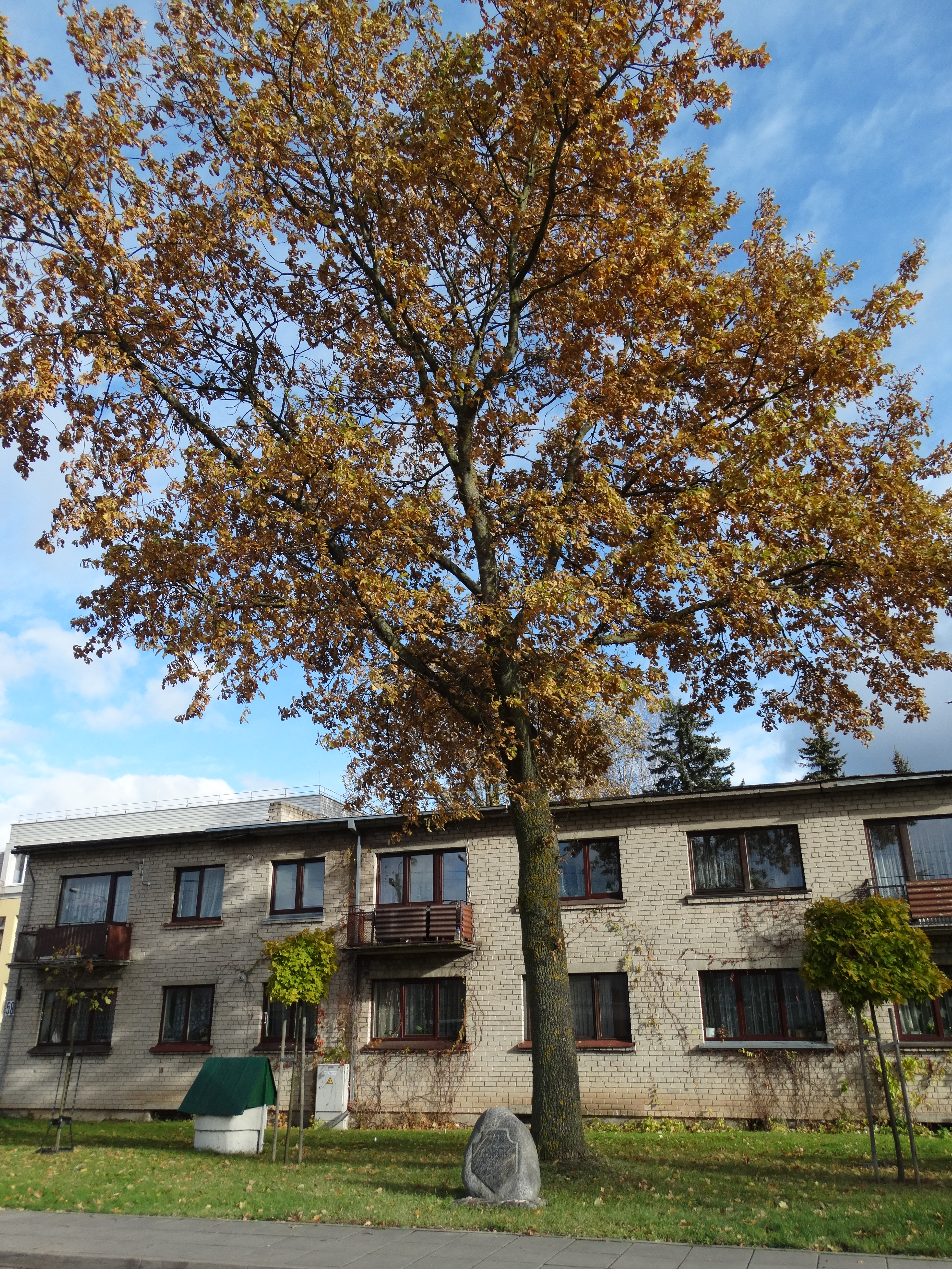 Oak in memory of state independence, Garliava, Lithuania